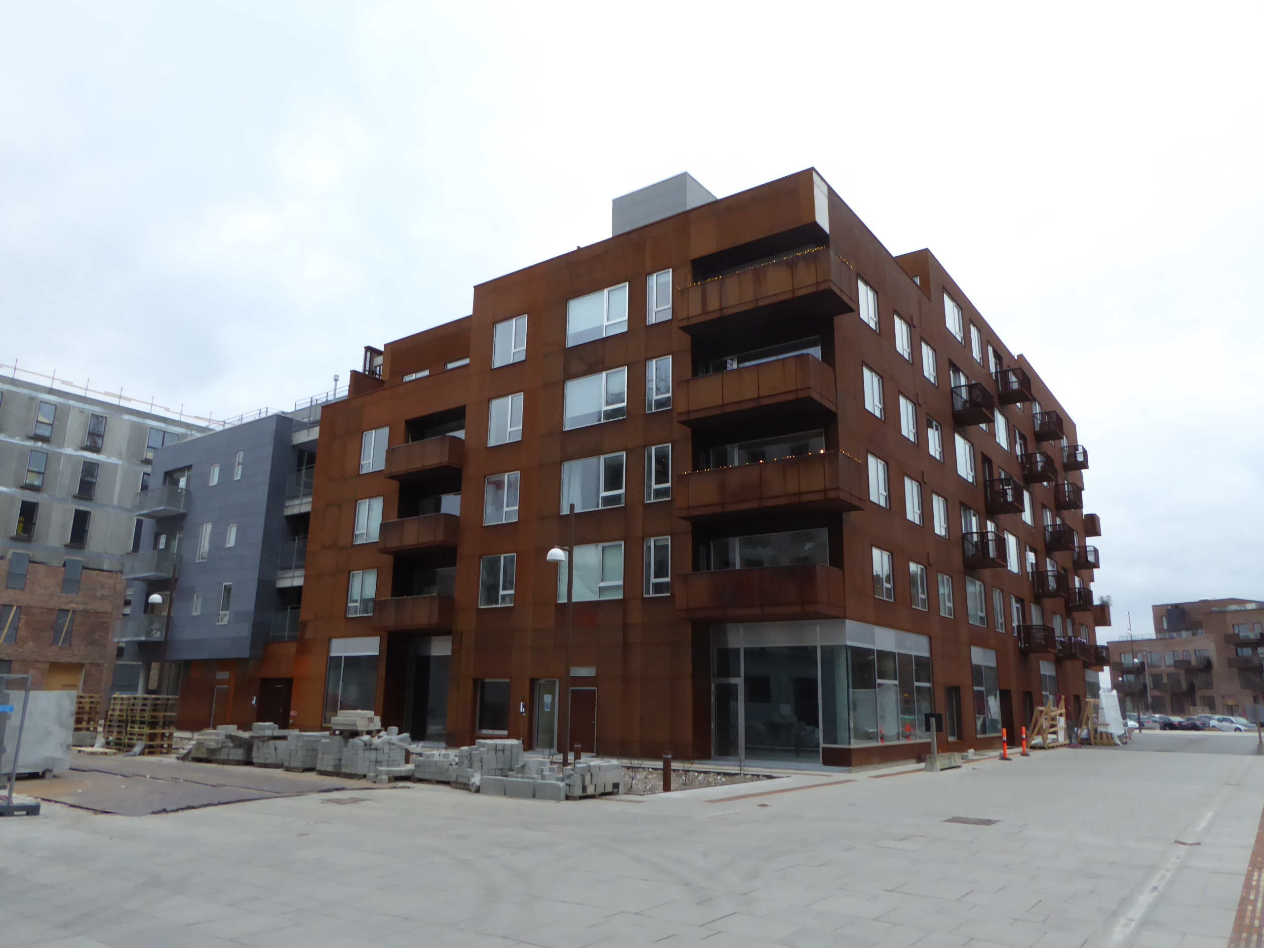 The building Havnehuset at Antwerpengade in Nordhavn in Copenhagen.